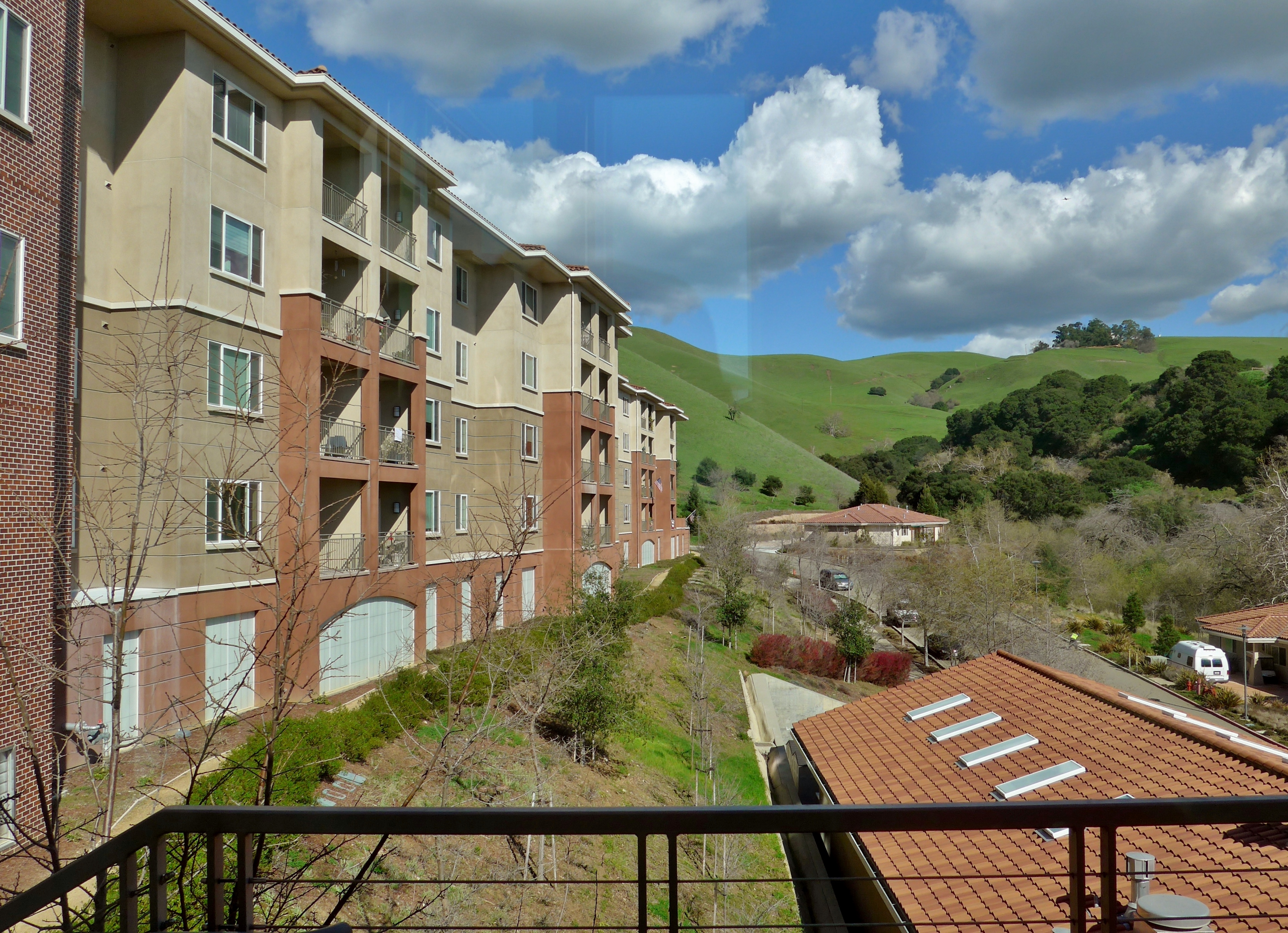 Acacia Creek (CCRC opened 2010 on the Masonic Home campus) Union City, CA. Apartments (left), villas (center and right), indoor pool under skylights (foreground).